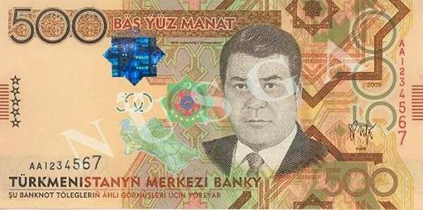 500 manats of Turkmenistan (2009)